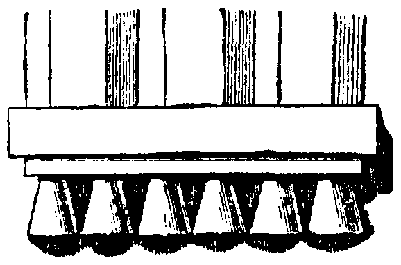 Gutta, see also Image:Droppar, fig 2, Nordisk familjebok.png